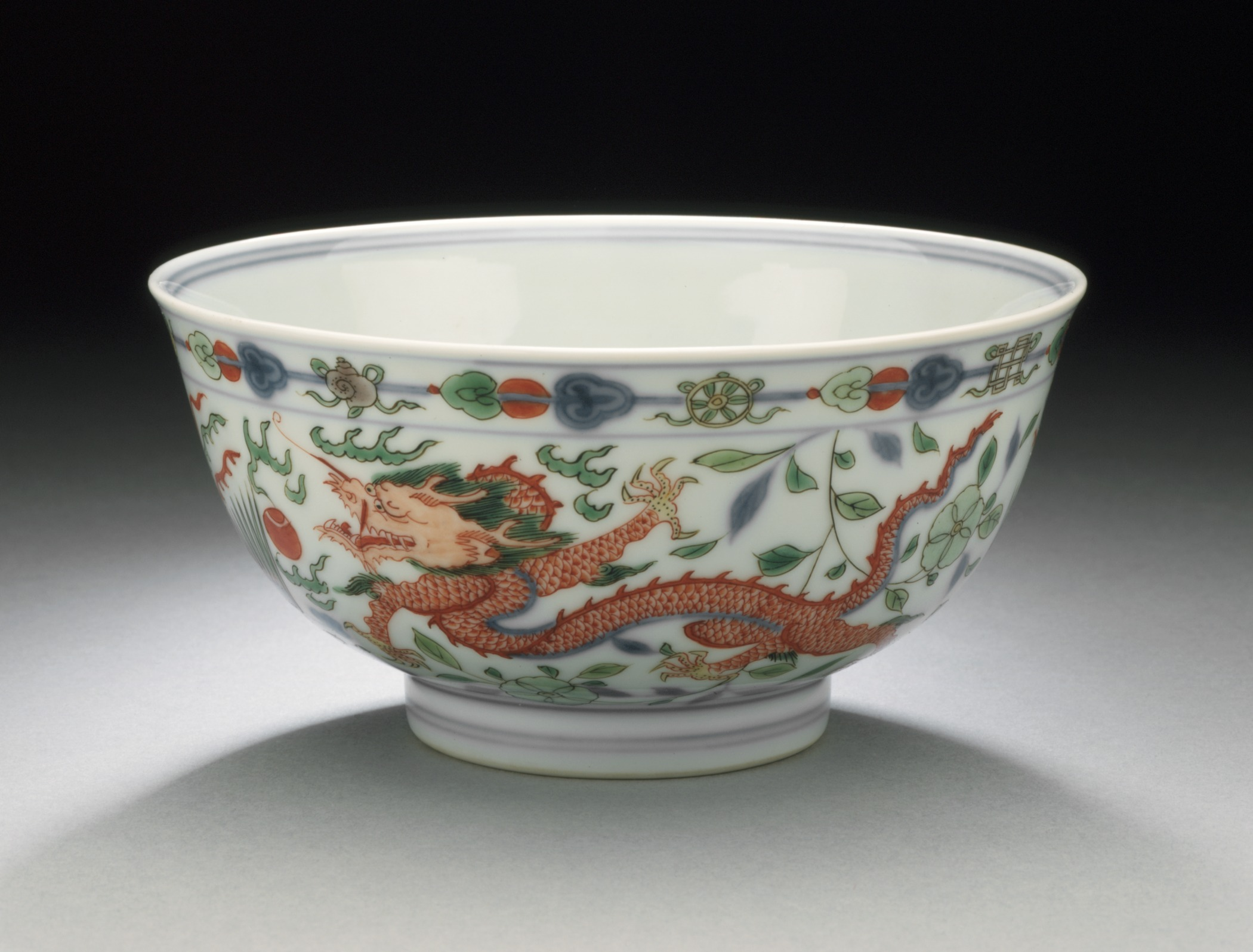 China, Jiangxi Province, Jingdezhen, Chinese, Qing dynasty, Kangxi mark and period, 1662-1722 Furnishings; Serviceware Wheel-thrown porcelain with underglaze blue, clear glaze, and overglaze painted enamel decoration (doucai) Gift of Mr. and Mrs. Jack G. Kuhrts (58.51.2a-b) Chinese Art